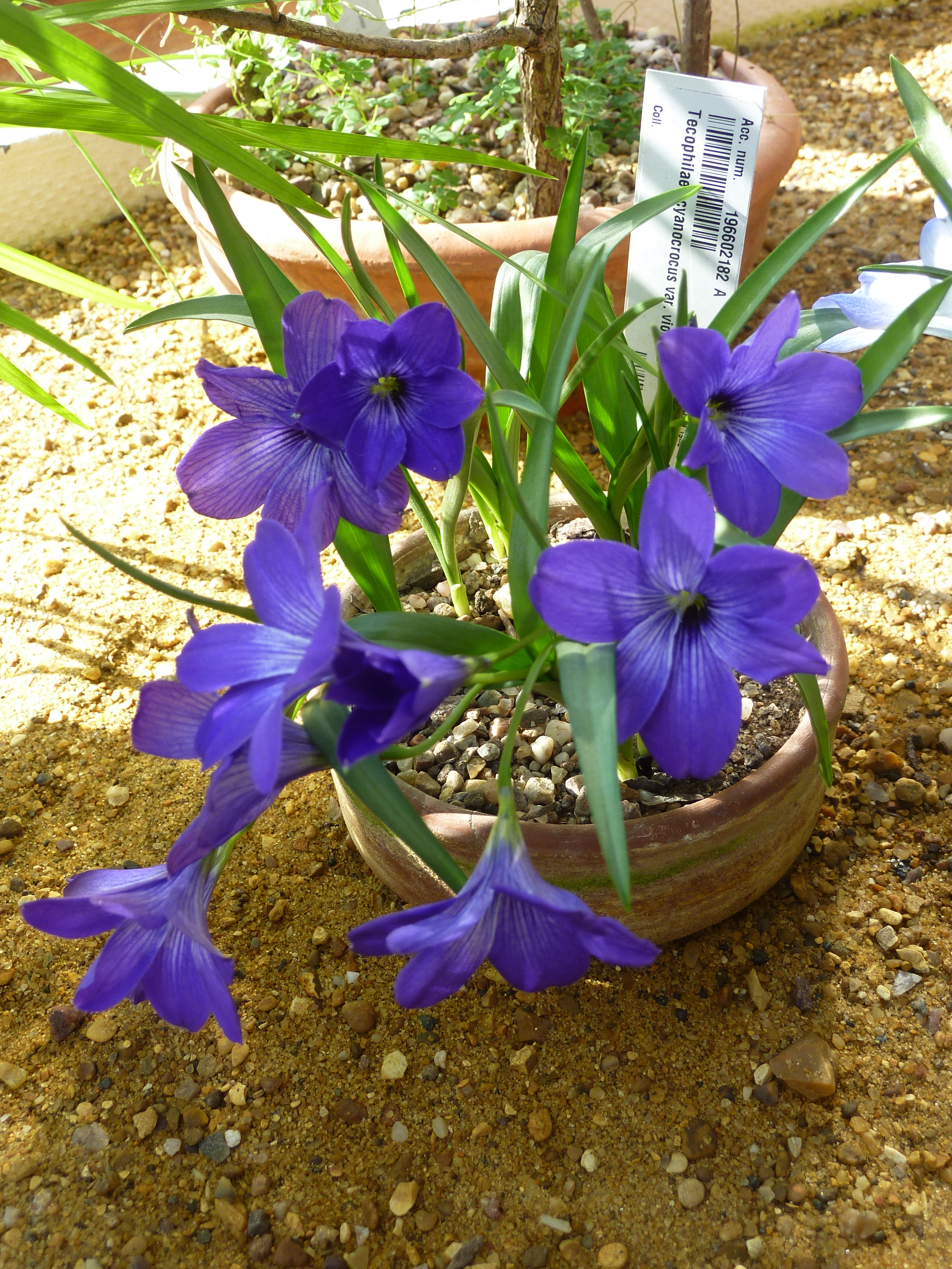 Taken in the Cambridge University Botanic Garden.